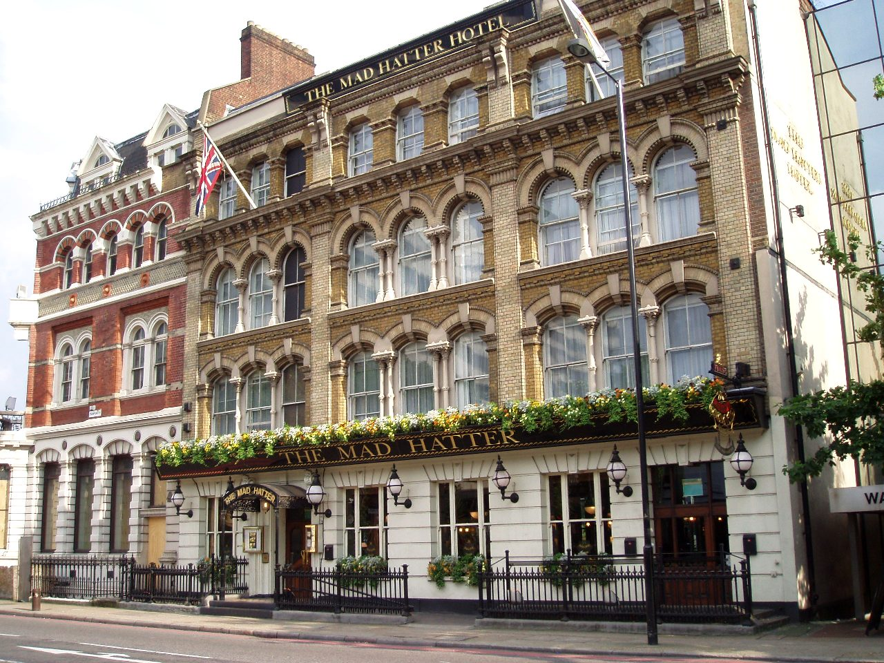 A Fuller's hotel near Blackfriars Bridge. Lots of space inside, and tasty food (they specialise in pies). Address: 3-7 Stamford Street. Owner: Fuller Smith Turner (website and Fuller's website). Links: Randomness Guide to London Fancyapint Beer in the Evening